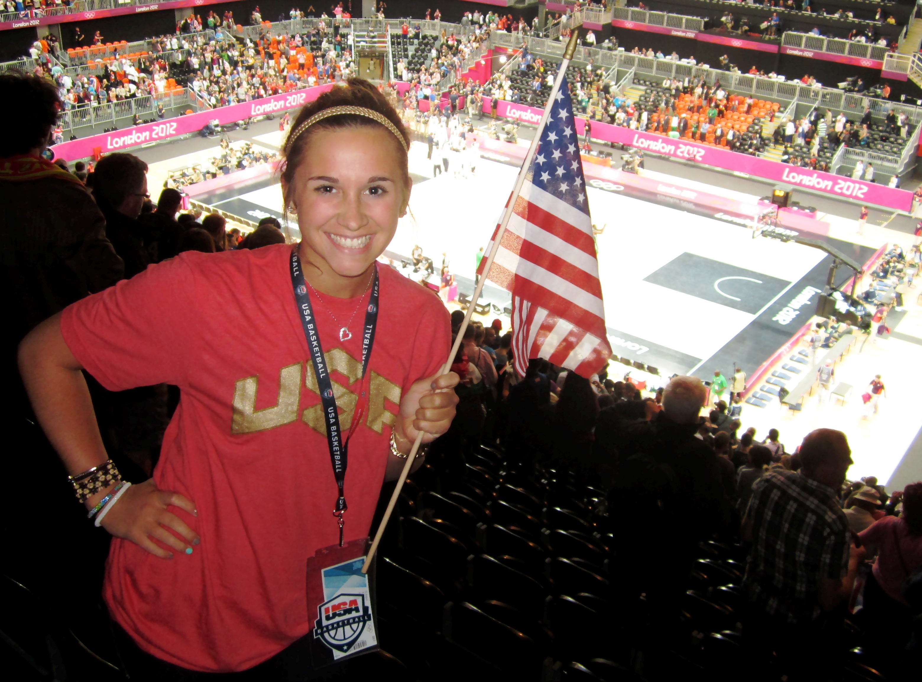 Savannah working at a Olympic basketball game